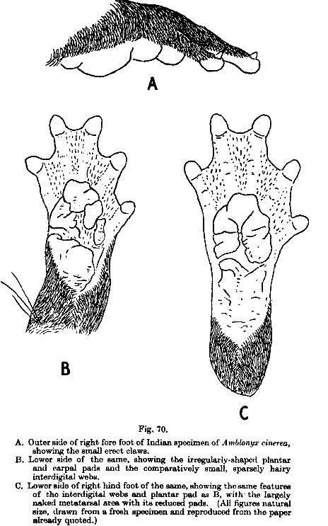 Feet of an Oriental small-clawed otter